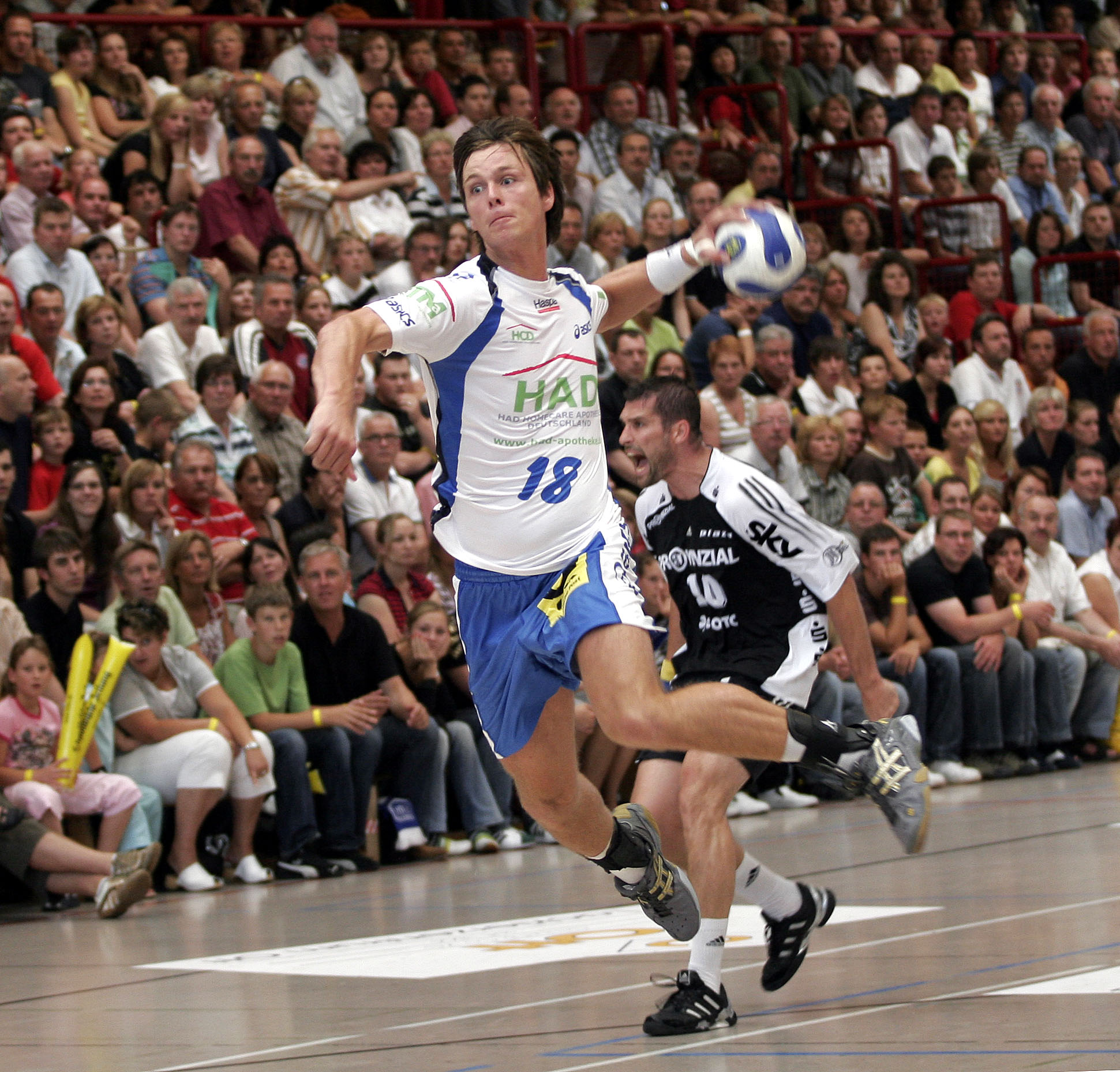 Hans Lindberg, Danish handball player from HSV Hamburg, during the Schlecker Cup 2007 in Ehingen (Germany)